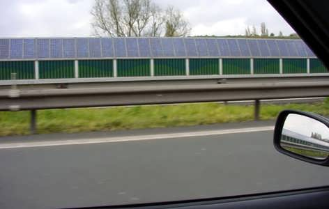 Noise barrier with solar energy system, near Lens, north of France (Nord/Pas-de-Calais region)